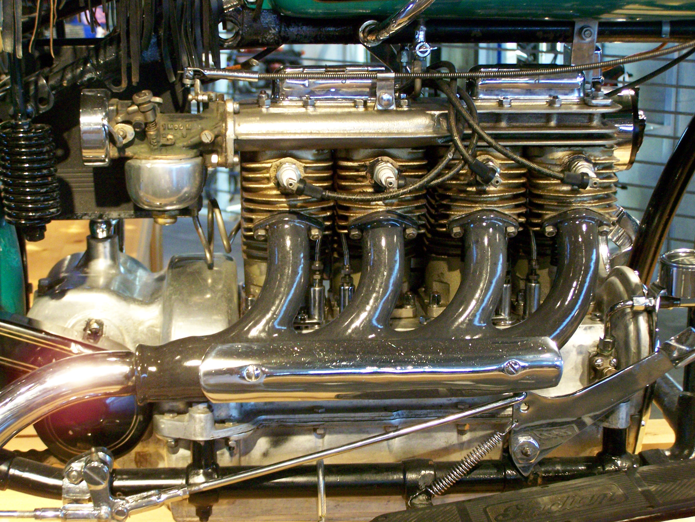 Engine on an Indian Four at the Barber Vintage Motorsports Museum